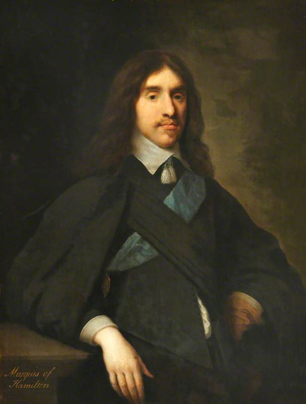 Portrait of William Hamilton, 2nd Duke of Hamilton (1616-1651)